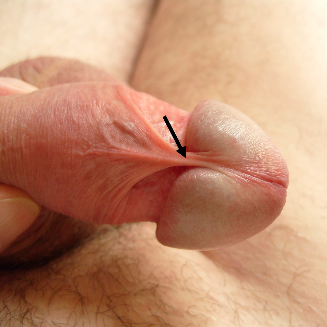 Frenulum of prepuce of penis.